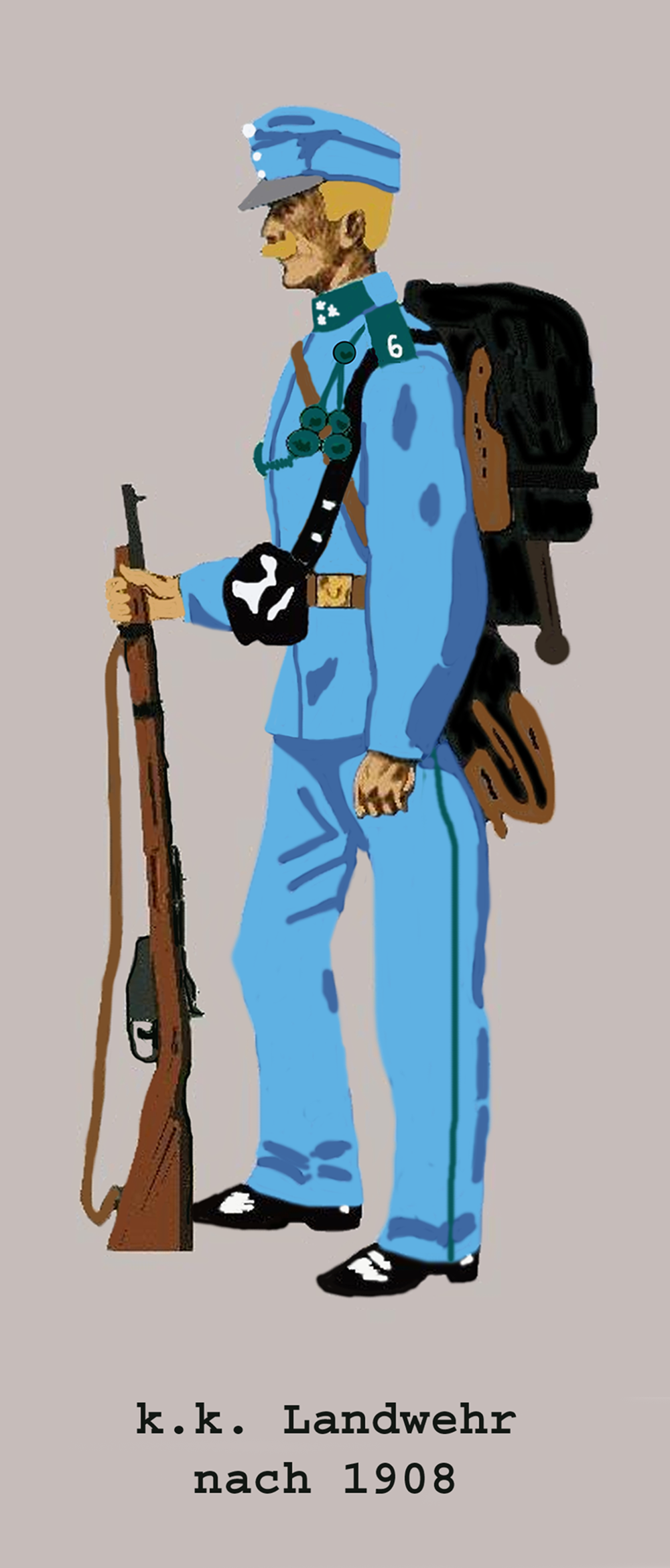 Austrian «Landwehr» in battle dress after 1908